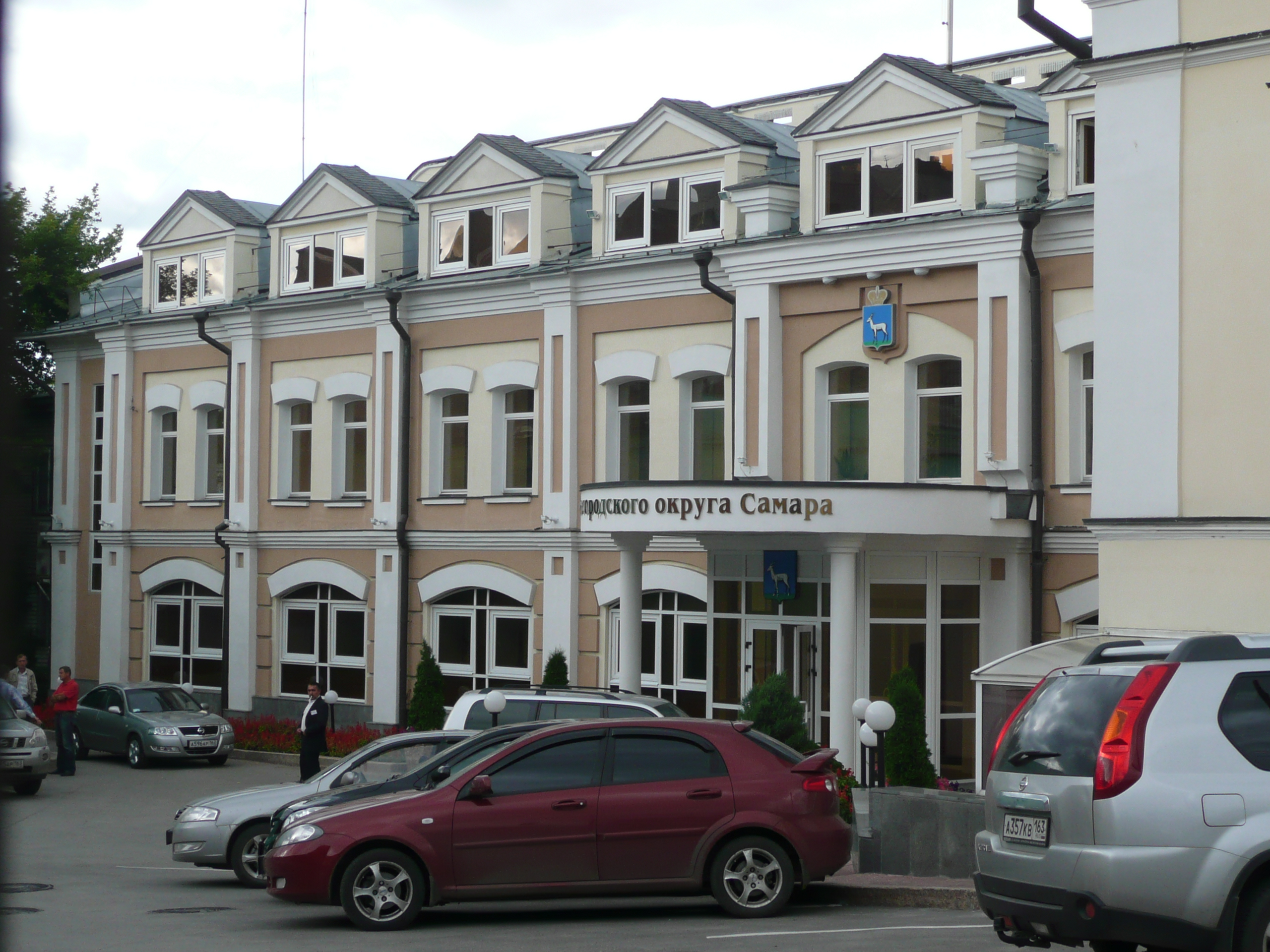 124_Kuybisheva_st_Samara.JPG